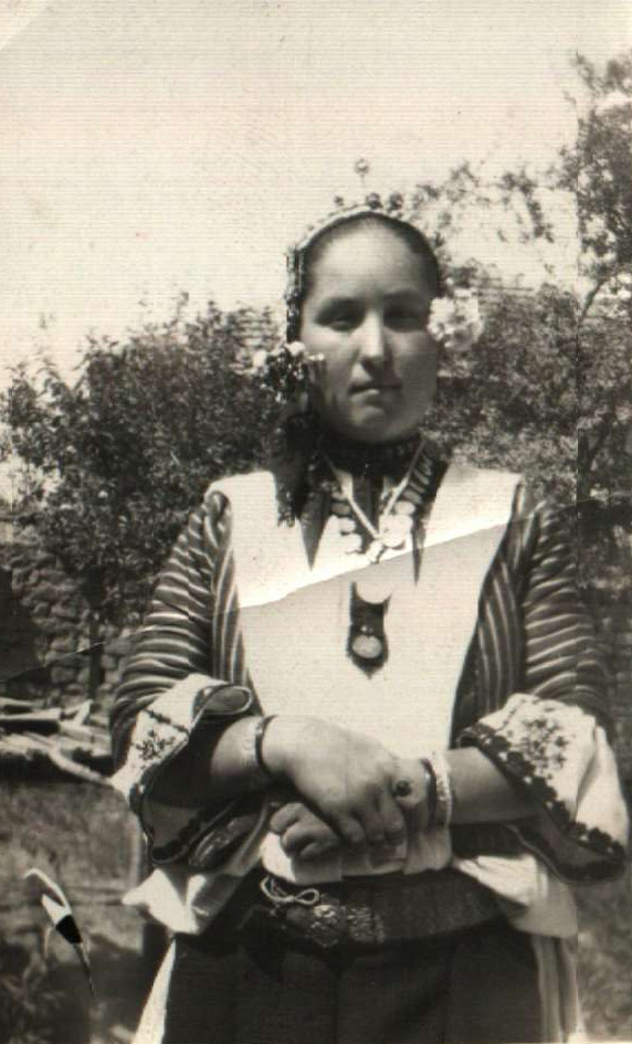 Wedding ceremonies in Borisovo, Bulgaria